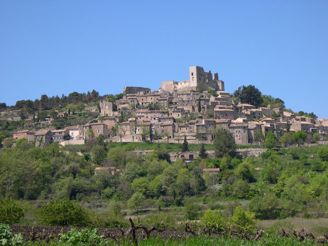 photo by R. Ockerman. 2005.